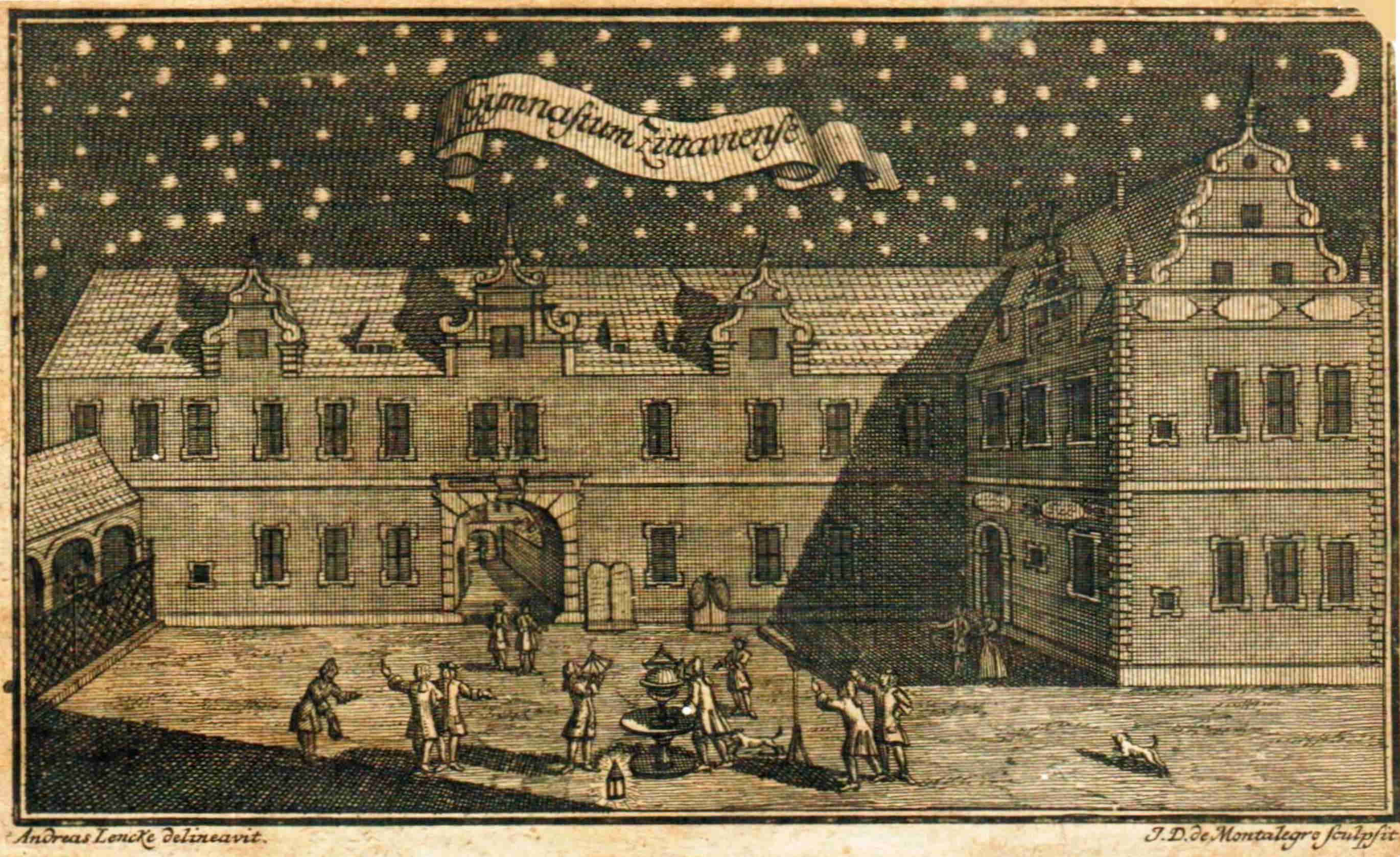 backyard of the old Zittau grammar school, astronomic observations by night (copper engraving)